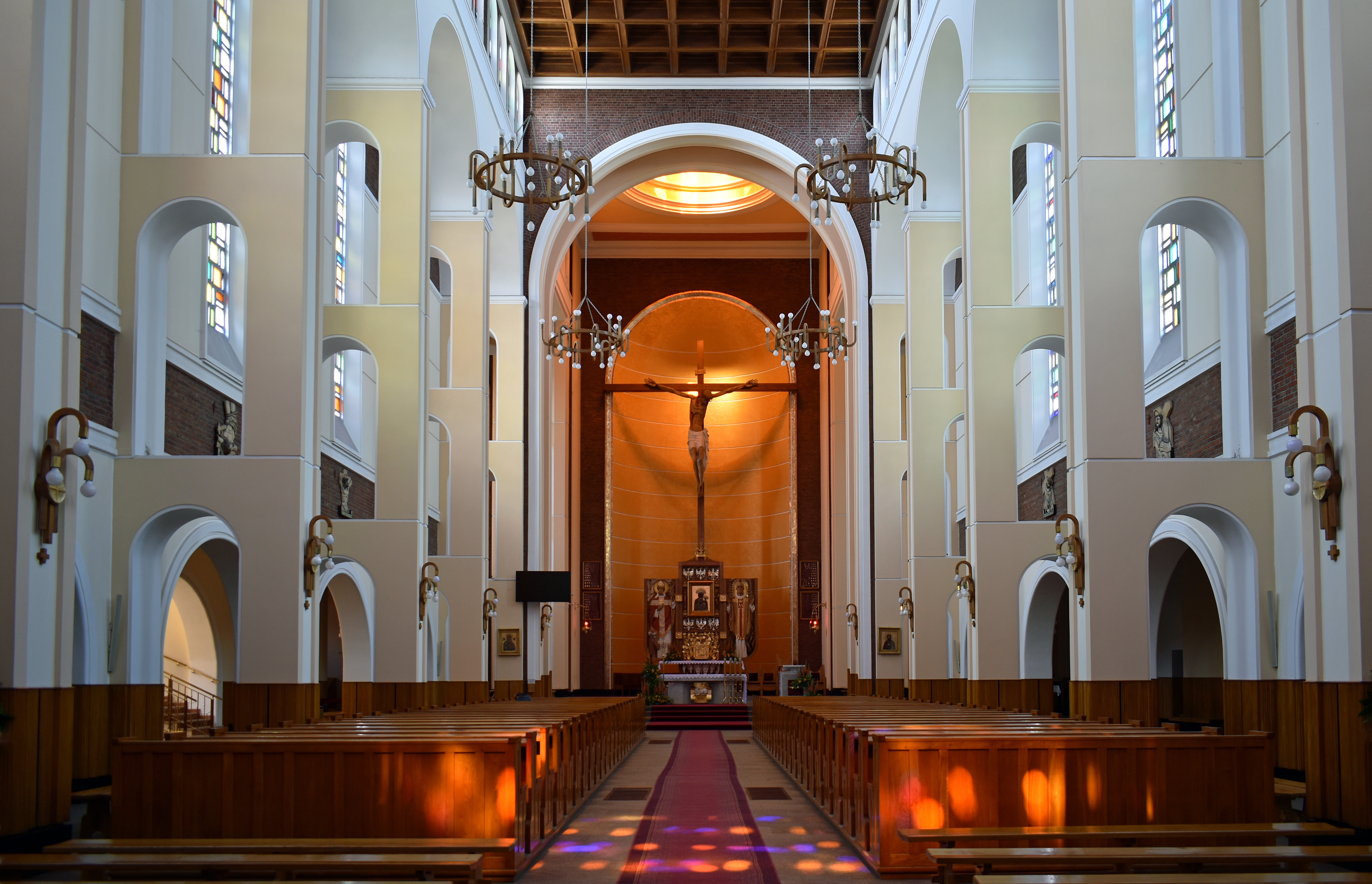 Church of Our Lady the Queen of Poland (interior), 5 Zbylitowska street, Moscice, City of Tarnow, Poland